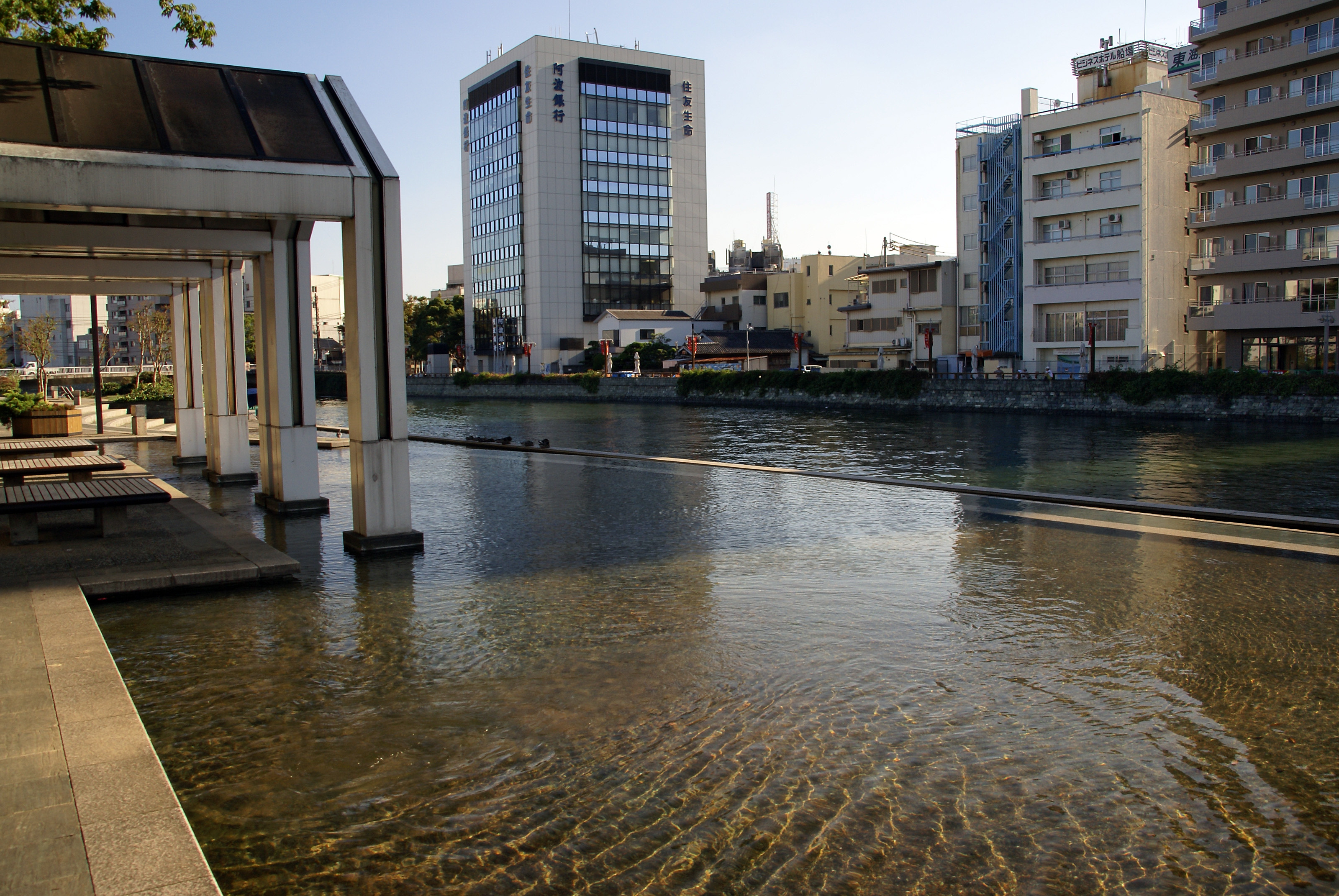 Shinmachi-gawa riverside park in Tokushima, Tokushima prefecture, Japan